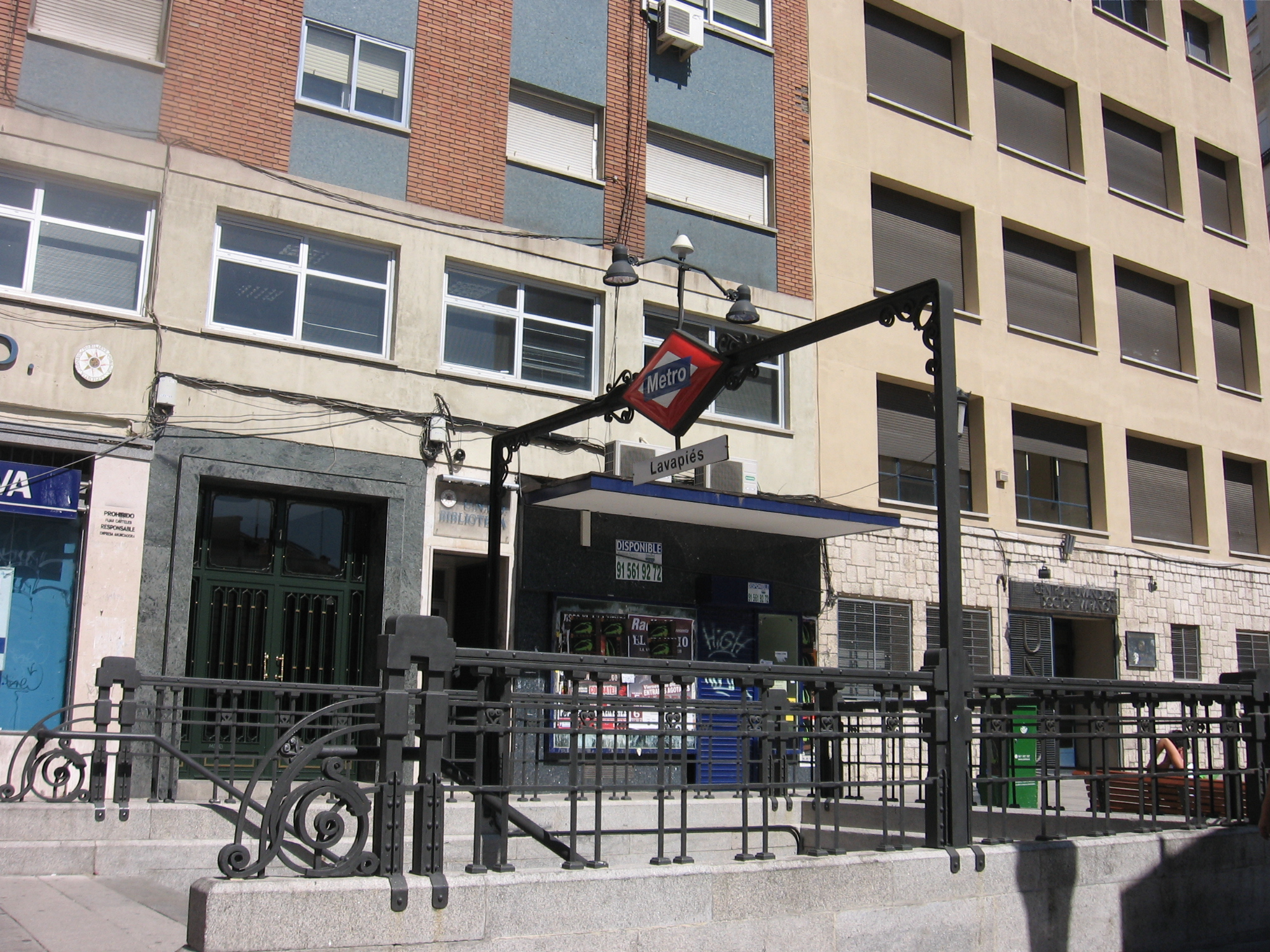 Lavapiés